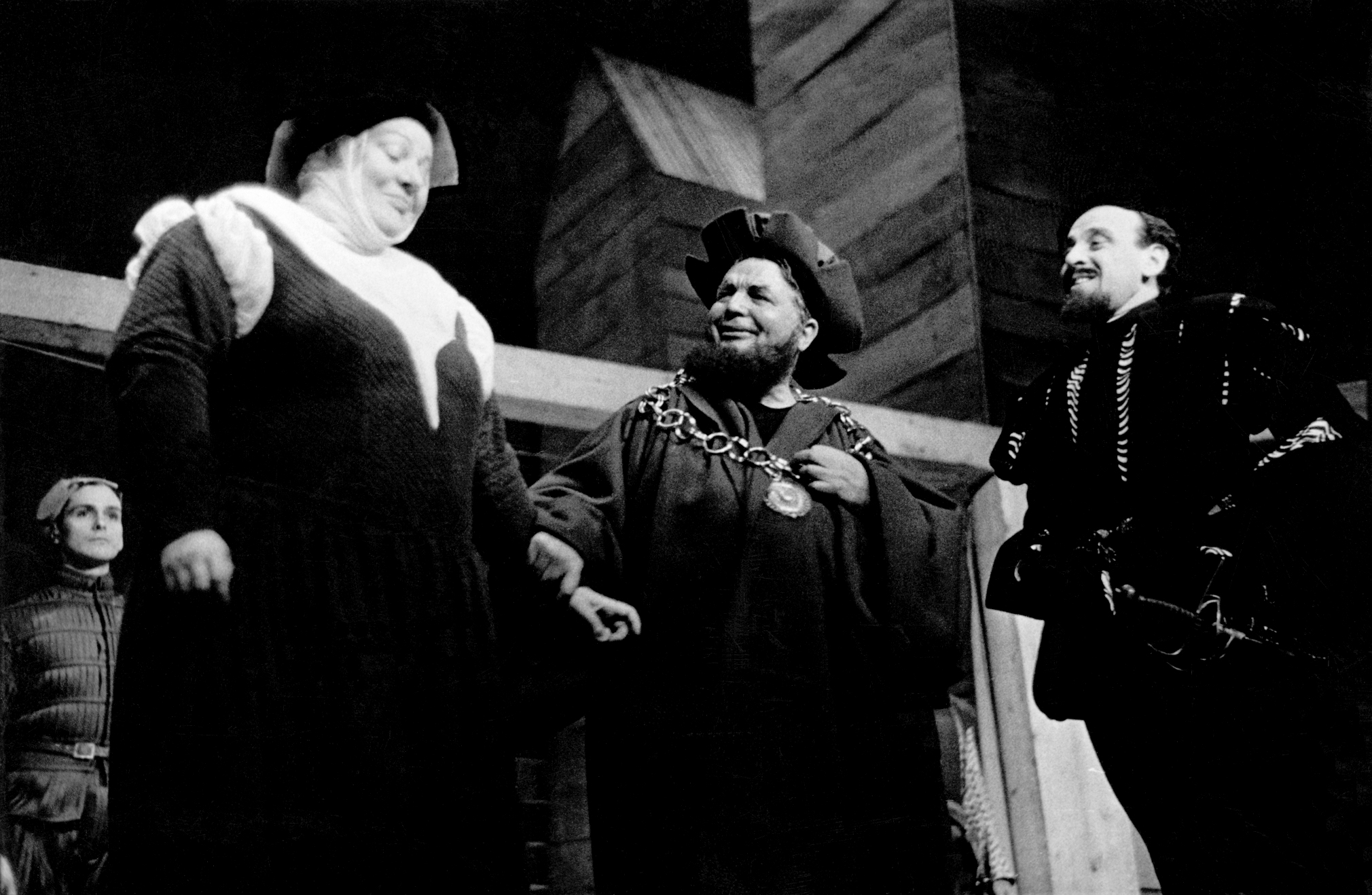 Promotional photograph of the Mercury Theatre production of The Shoemaker's Holiday, adapted by Orson Welles from the play by Thomas Dekker; directed by Orson Welles. Production opened January 1, 1938, and ran through April 28, 1938. Subjects of the photograph are Marian Warring-Manley as Margery, Whitford Kane as Simon Eyre, and George Coulouris as the King.